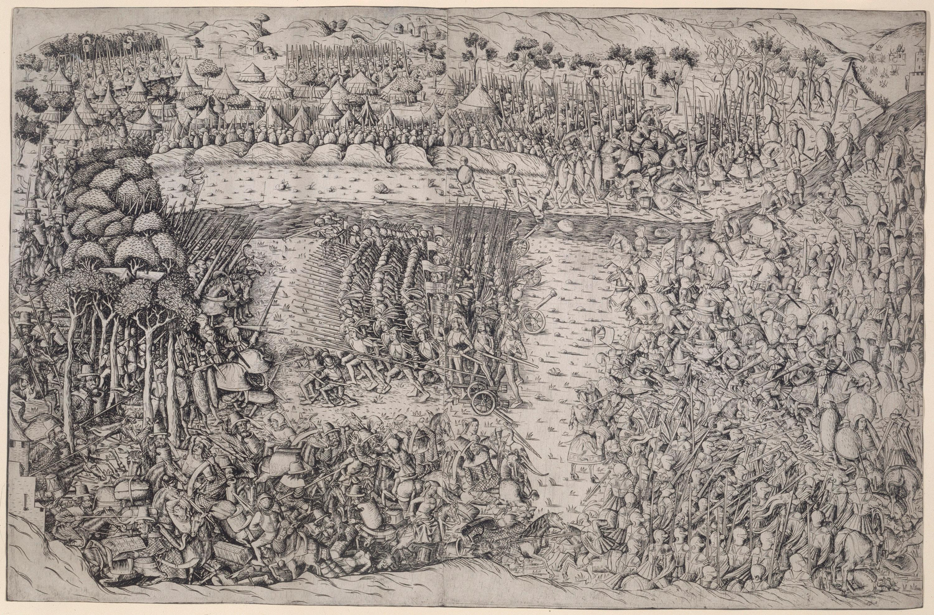 The Battle of Fornovo, showing Swiss mercenaries and Balkan light cavalry (Stradioti)